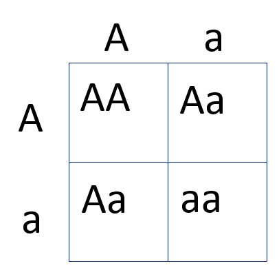 Punnett square depicting a cross between two genetic carriers. The chance of two genetic carriers having a child with the recessive disease, thus being homozygous recessive, is 25%.